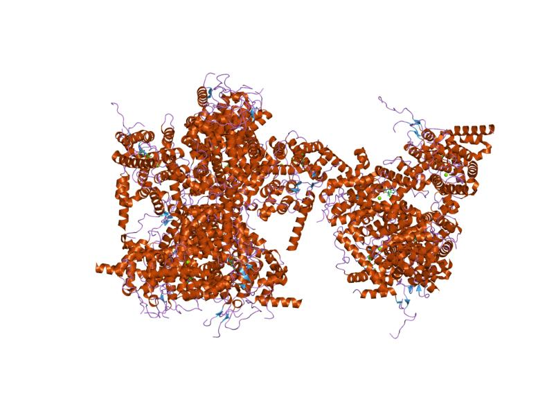 Cartoon representation of the molecular structure of protein registered with 1soj code.